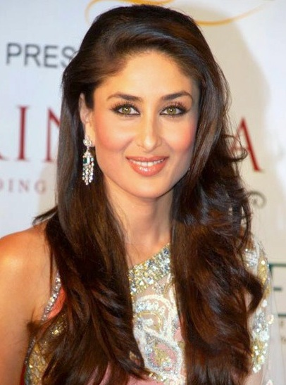 Indian actress Kareena Kapoor at the launch of Gitanjali's jewellery collection, "Parineeta"